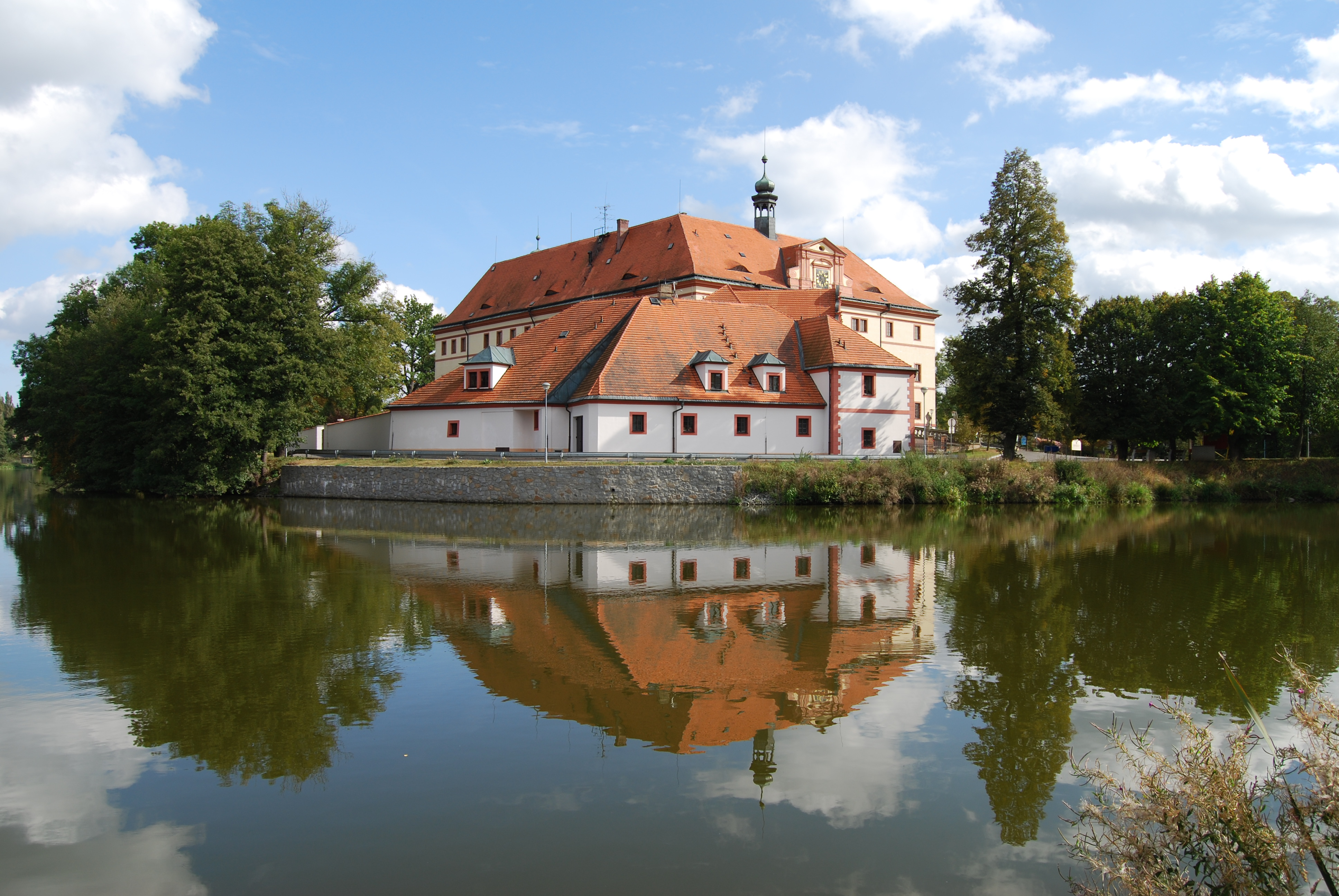 "Stará tvrz" in Lnáře town, Strakonice District, Czech Republic. In front is "Zámecký" pond.